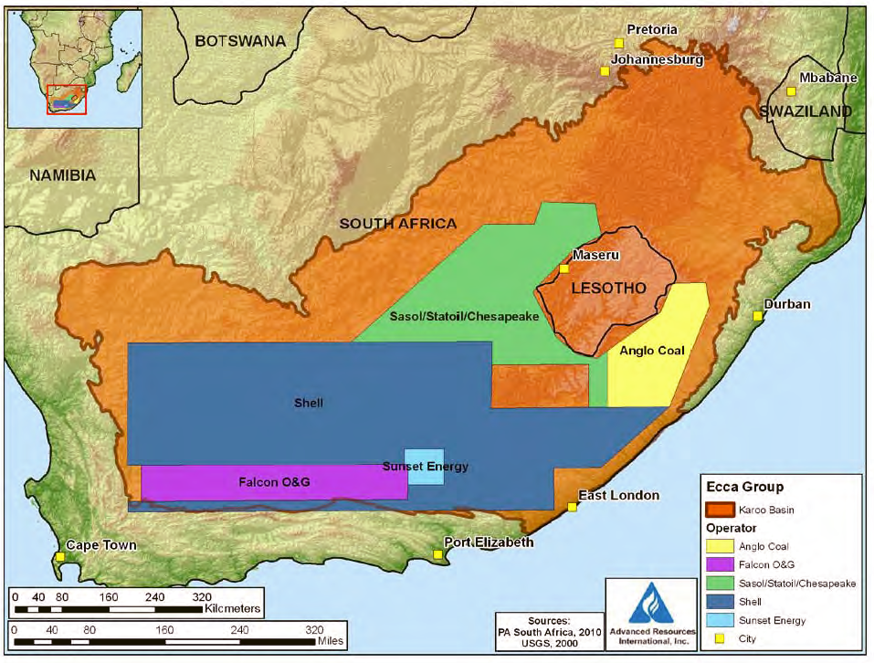 Map Showing Operator Permits in the Karoo Basin, South Africa for Shale Gas exploration and prospecting.